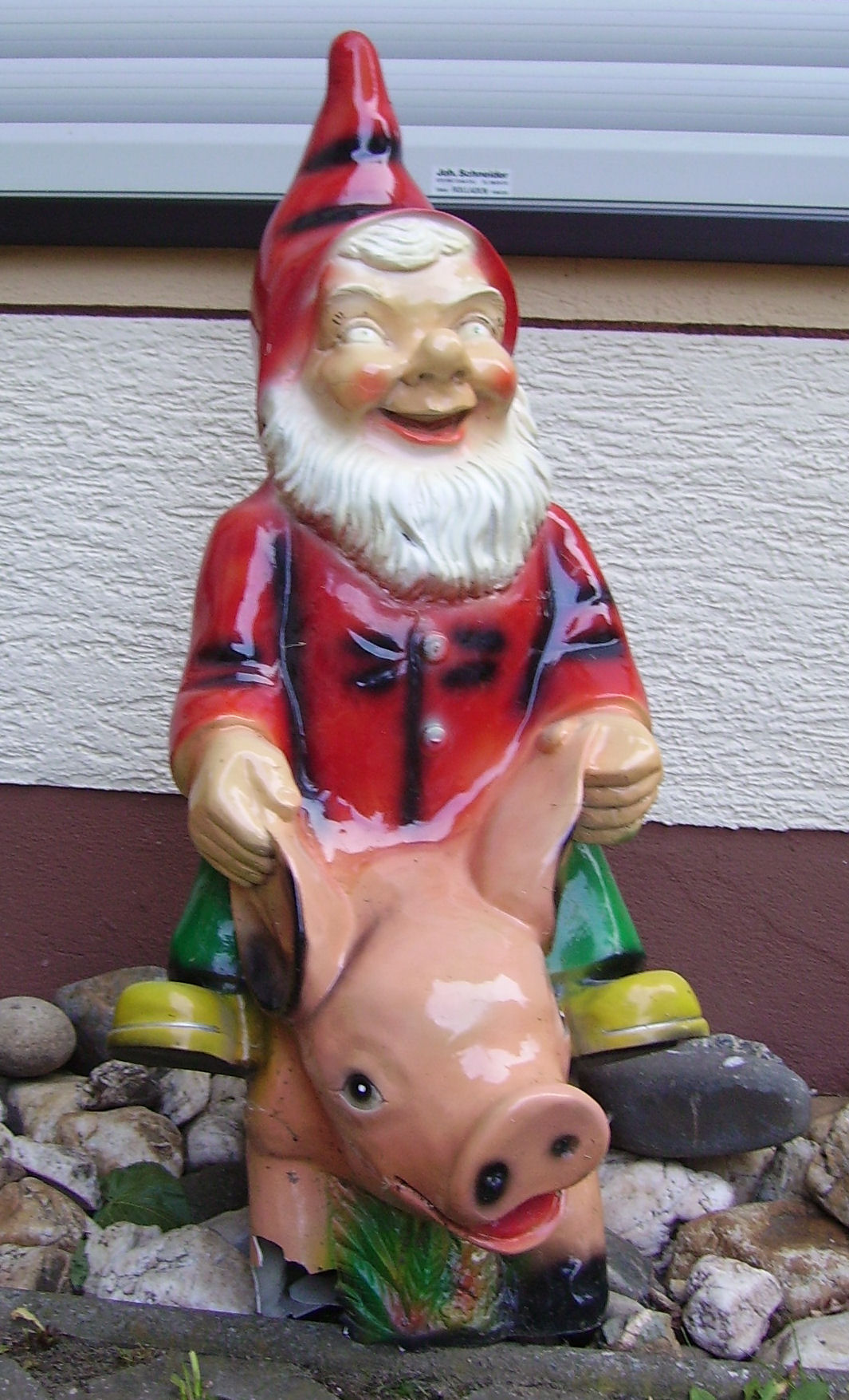 views of Königsfeld in Oberfranken near Bamberg (Upper Franconia) in Germany